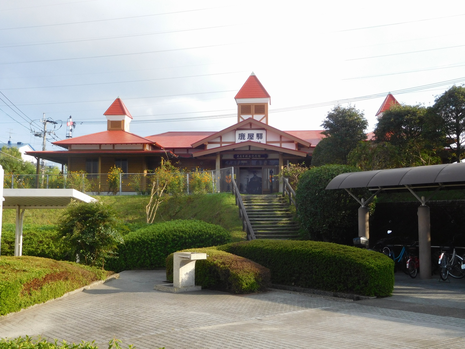 Kanoya City Railway Memorial on October 2016 (Kanoya City, Kagoshima Prefecture, Japan)